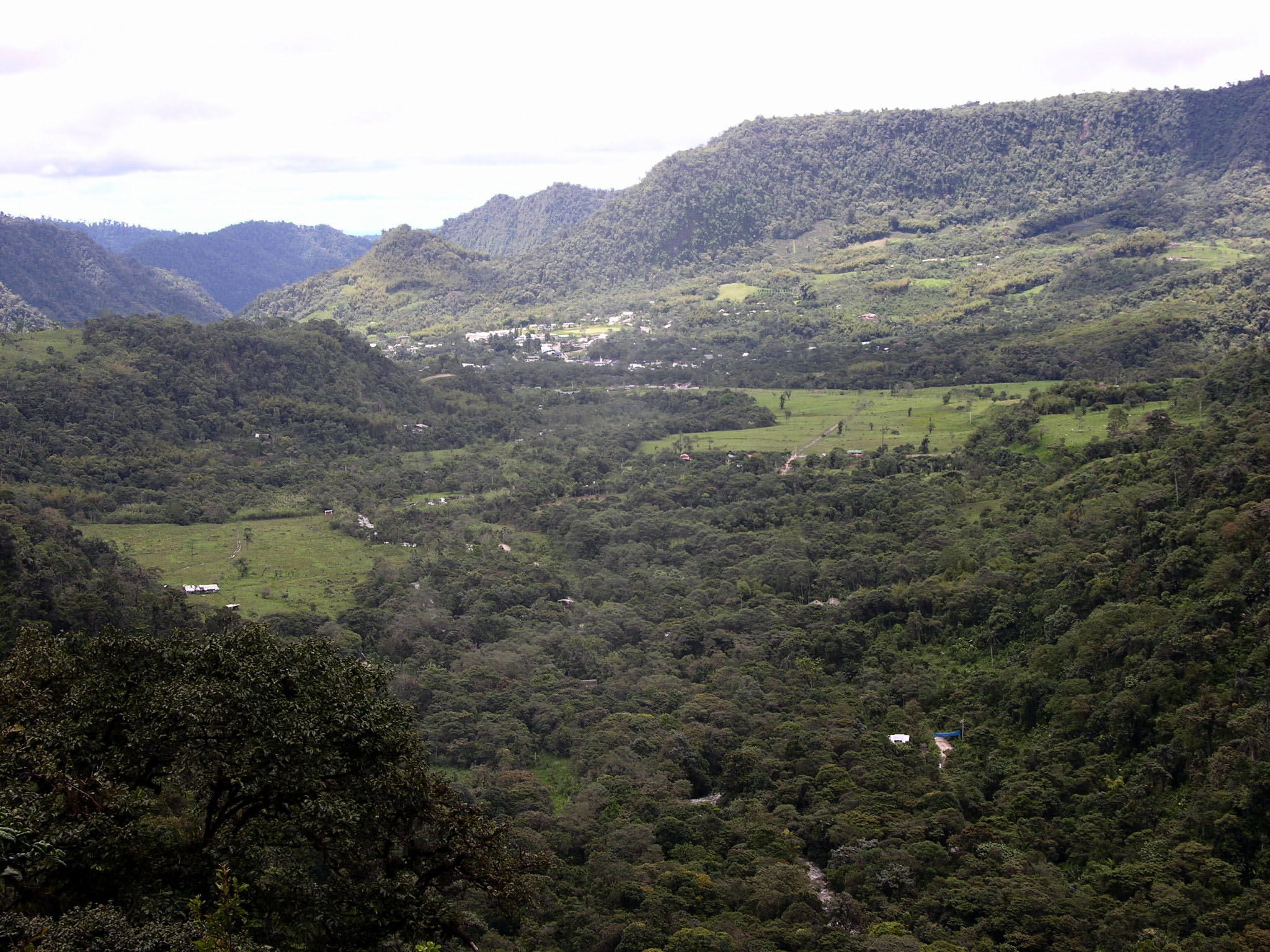 A view of Mindo, Ecuador, from the Mindo-Nambillo Protected Forest